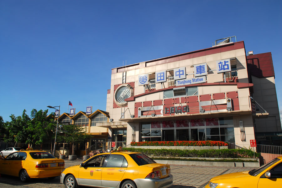 TianJhong Station is a local train station of Taiwan's Western main rail line. It's the main station of TianJhong Town, ChangHua County. From 2003 most of the service has been shift to the new station building next to the original station.Bân-lâm-gú: Tiân-tiong-tshia-tsām sī Tâi-thih tsòng-kuàn-suànn siōng ê 1-tsō tē-hng tshia-tsām, sī Tsiong-huà-kuān Tiân-tiong-tìn ê tsú tshia-tsām. Tiân-tiong-tshia-tsām ê sin tsām-thé tsāi 2003-nî sî lo̍h-sîng khé-iōng. Tān guân-pún ê kū tsām-thé pīng bu̍t in-tshú thiah-tû. In-tshú sîng-uî 1-sin 1-kū pīng-pâi tsāi it-khí ê tik-sû tsōng-hòng.